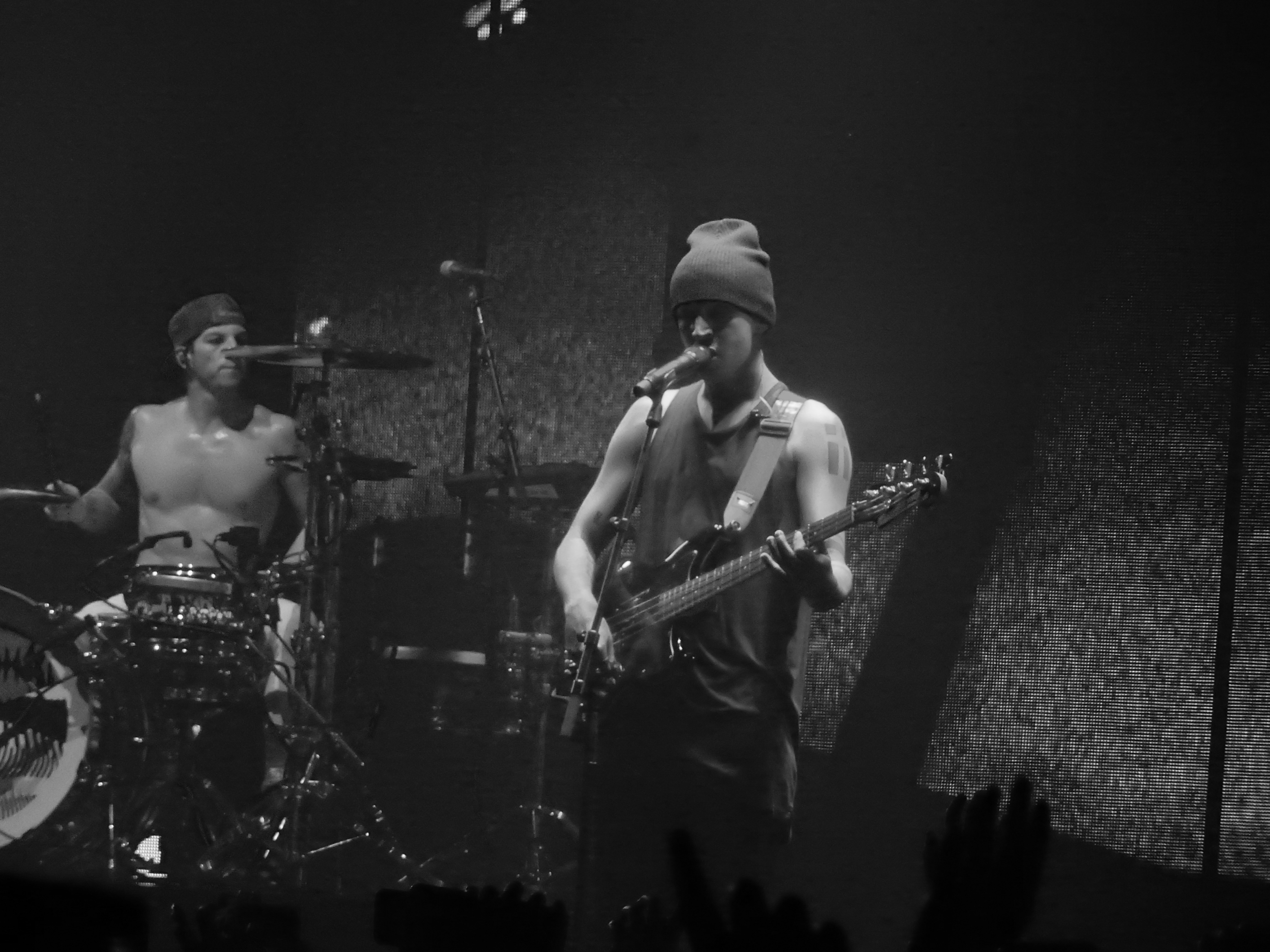 Twenty One Pilots, Alexandra Palace, London